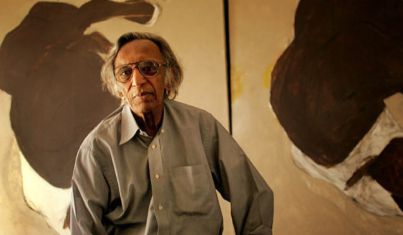 Tayyabb Mehta (25 July 1925 – 2 July 2009) was a noted Indian painter.